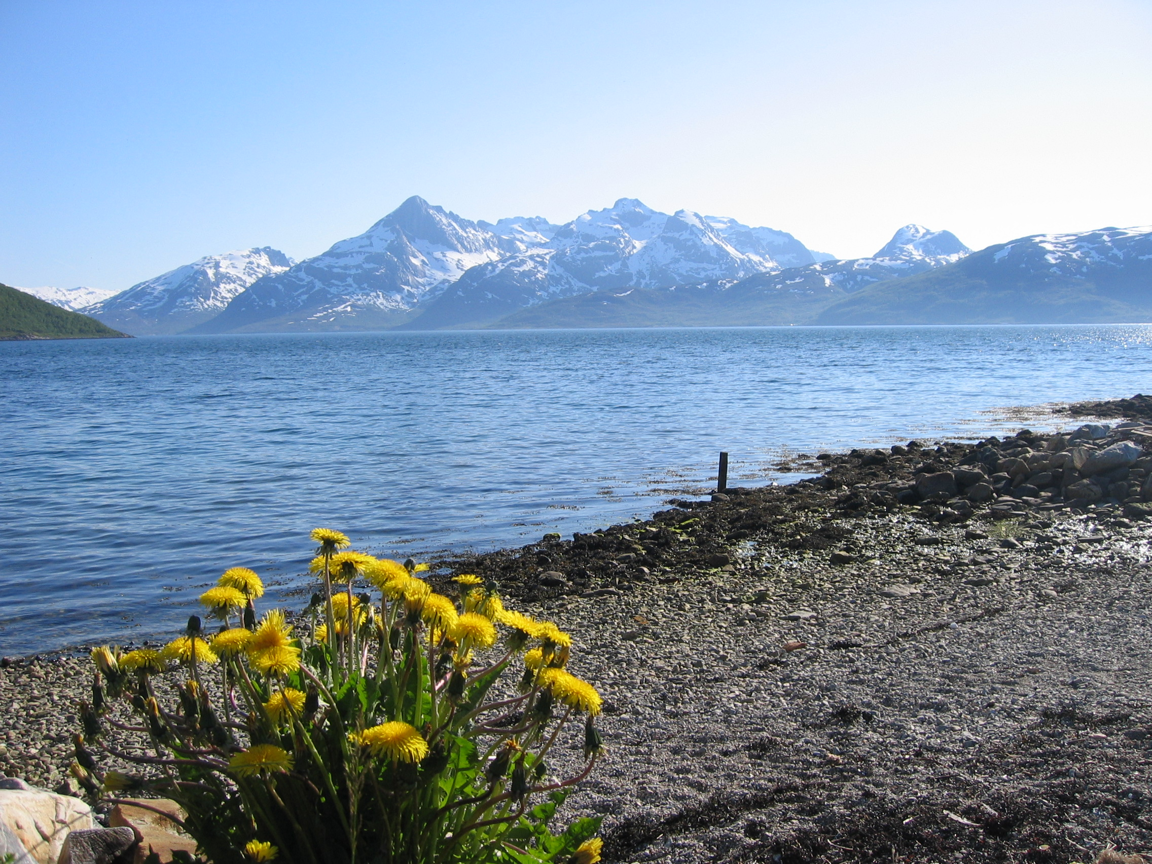 Early summer in Skulsfjord, Tromsø, Norway, June 2005. All land and mountains are part of Kvaløya.